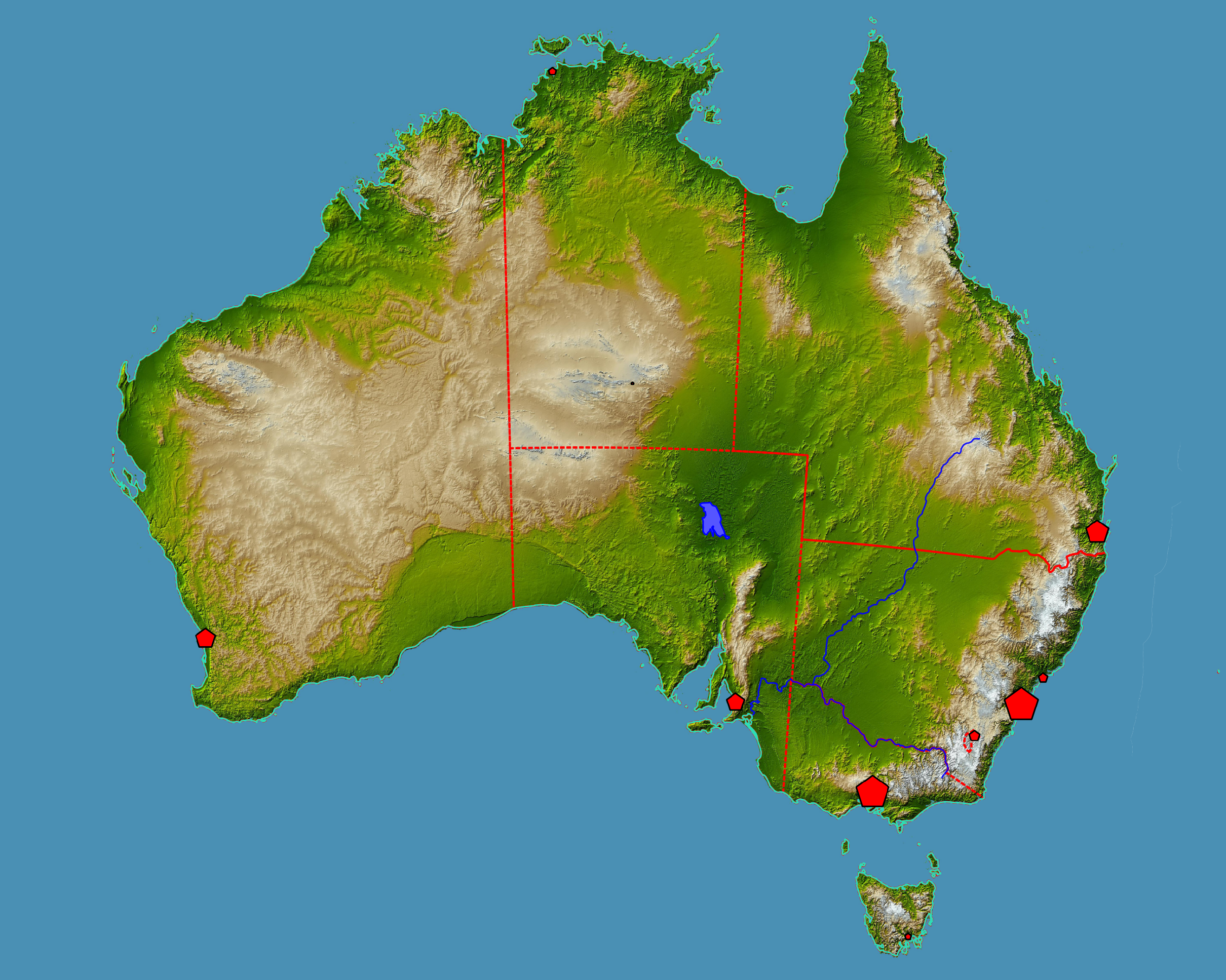 Topography of Australia. PIA06665: Australia, Shaded Relief and Colored Height